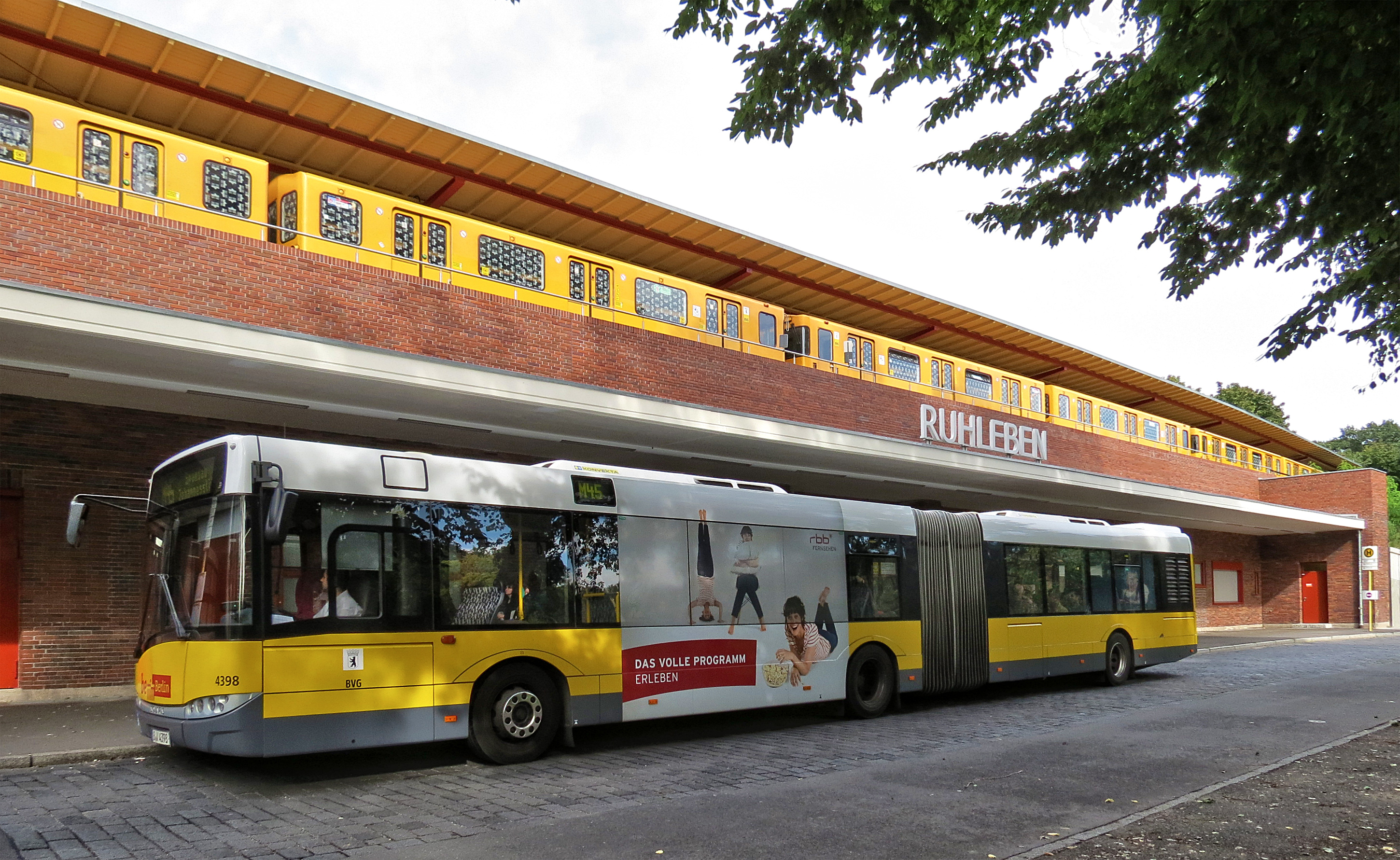 Solaris Urbino 18 bus (#4398, reg. B-V 4398) in Germany, Germany. Built 2009, BVG operator.